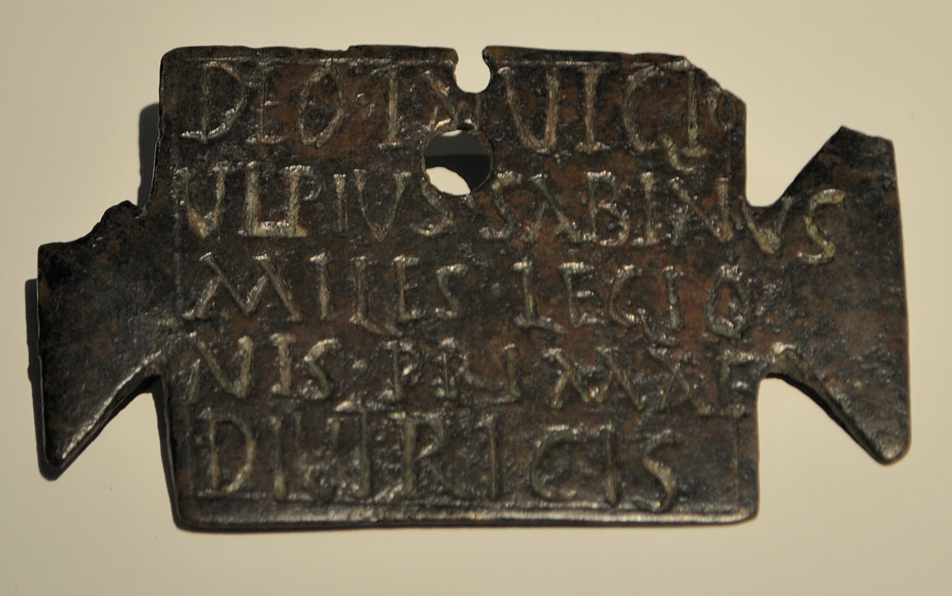 Picture taken in the Roman history museum in Osterburken.